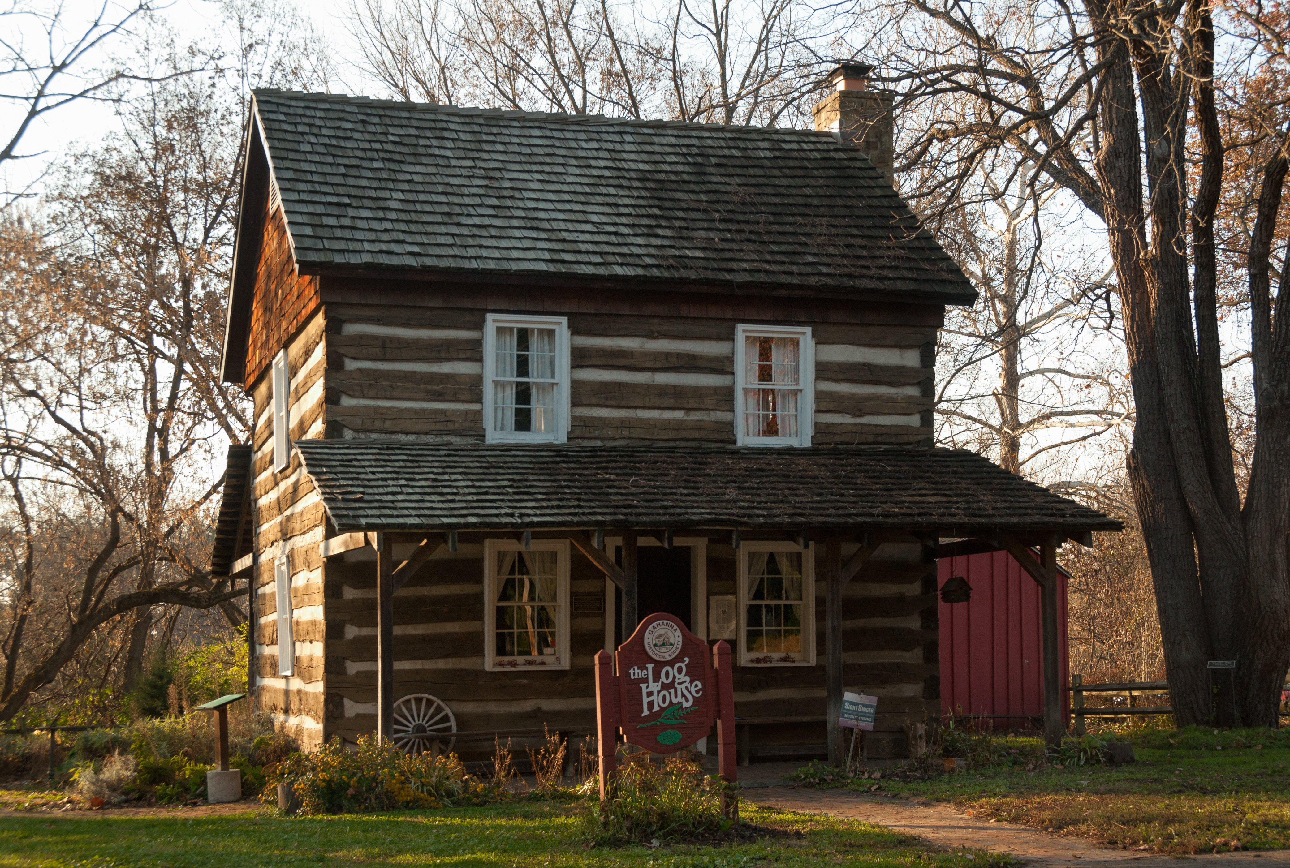 The Log House is one of the first two sites noted and restored by the Gahanna Historical Society. They have noted it as a beautiful example of pioneer architecture and lifestyle. The Log House was built by David Shull for his bride Julia in 1840.